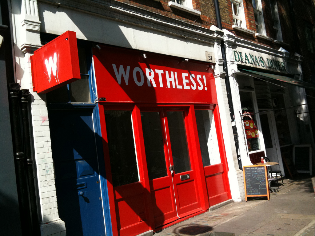 Exterior photo of 'Worthless' installation by artist Josef O'Connor (2009) in Covent Garden, London.